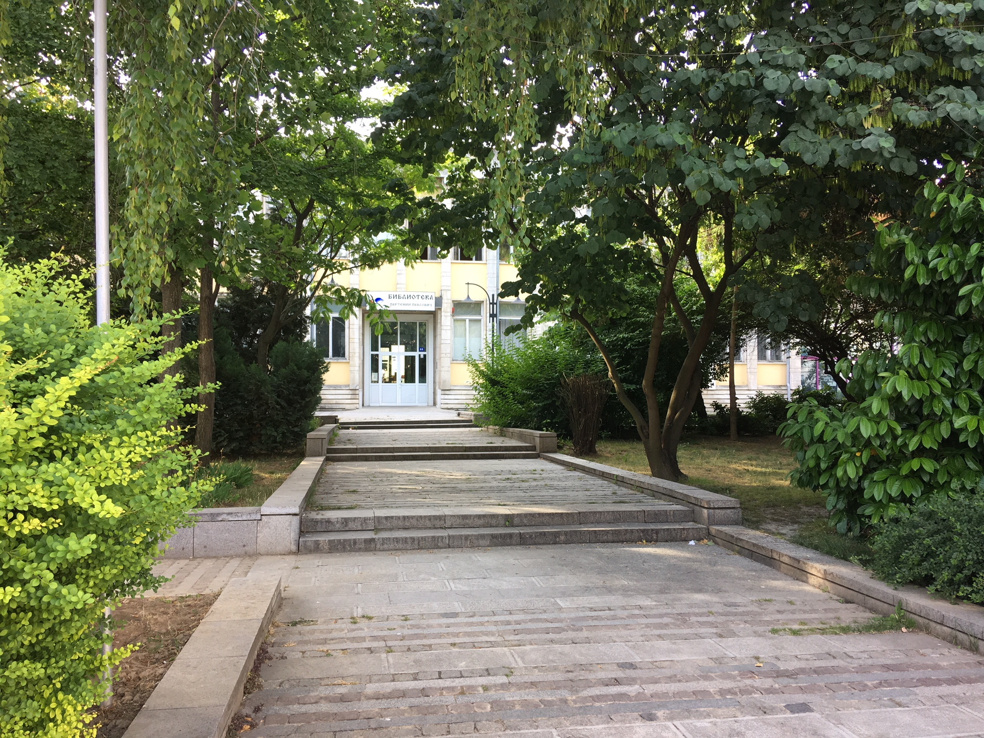 Silistra reional library entrance main building